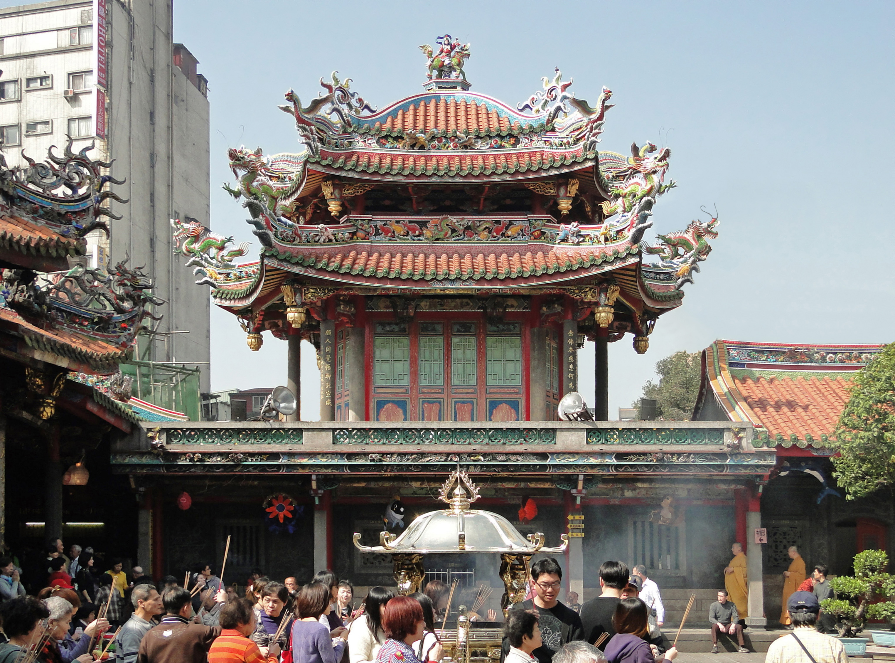 The Drum Tower of the Mengjia Longshan Temple in Taipei, Taiwan